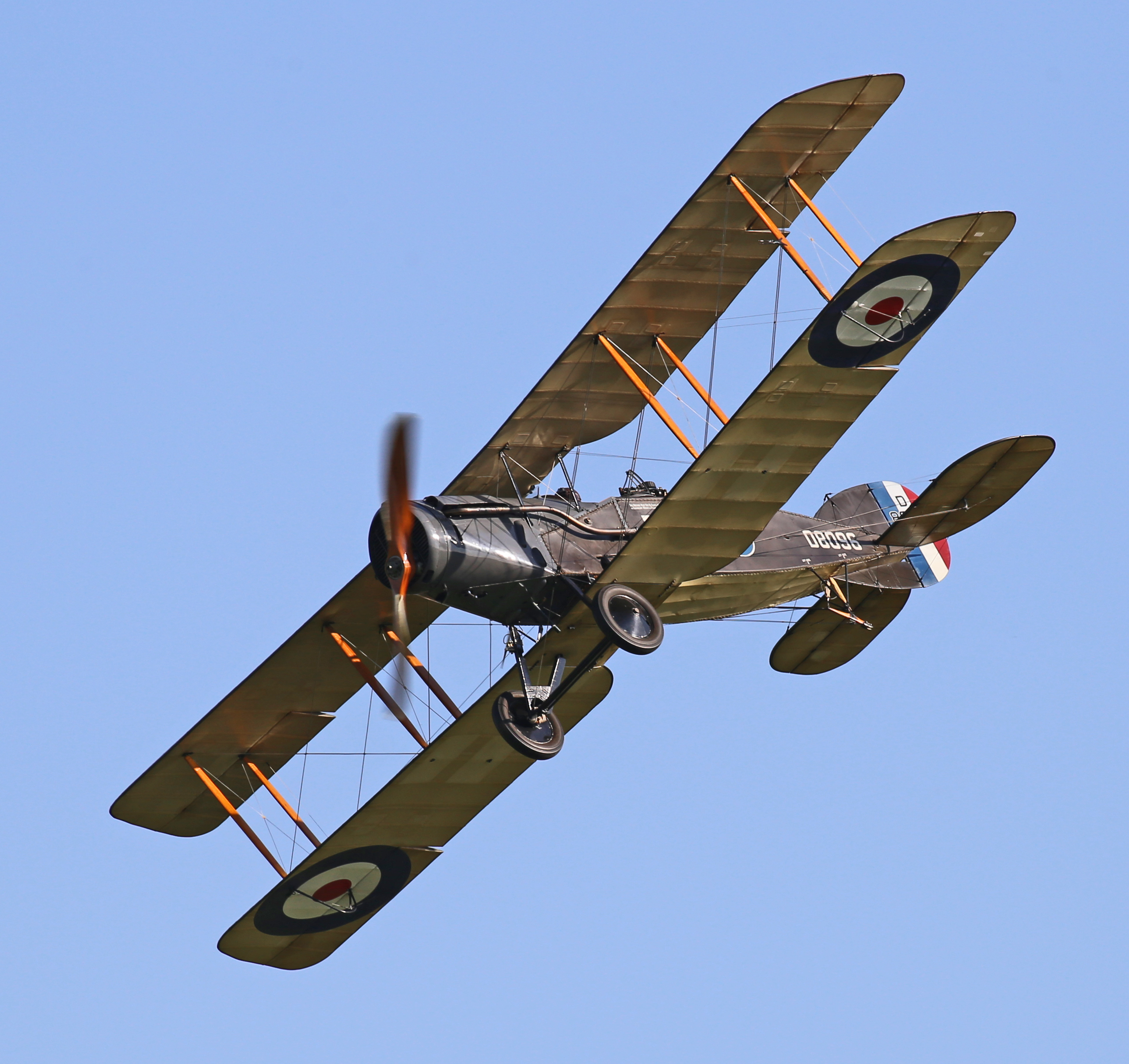 Bristol F2B Fighter D8096 was built in 1918 and served in 208 Squadron in Turkey after the end of World War I.